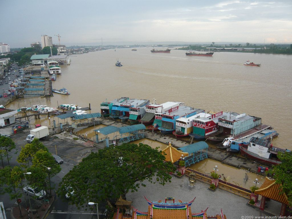 Bird's eye view of Sibu wharf terminal and the Rajang river. Nearest to the camera is the Tua Pek Kong Temple compound. Further away are boats arranged in a line that functions as "floating market". Still further away along the river bank are the speedboats, Pandaw river cruise, and the wharf terminal.